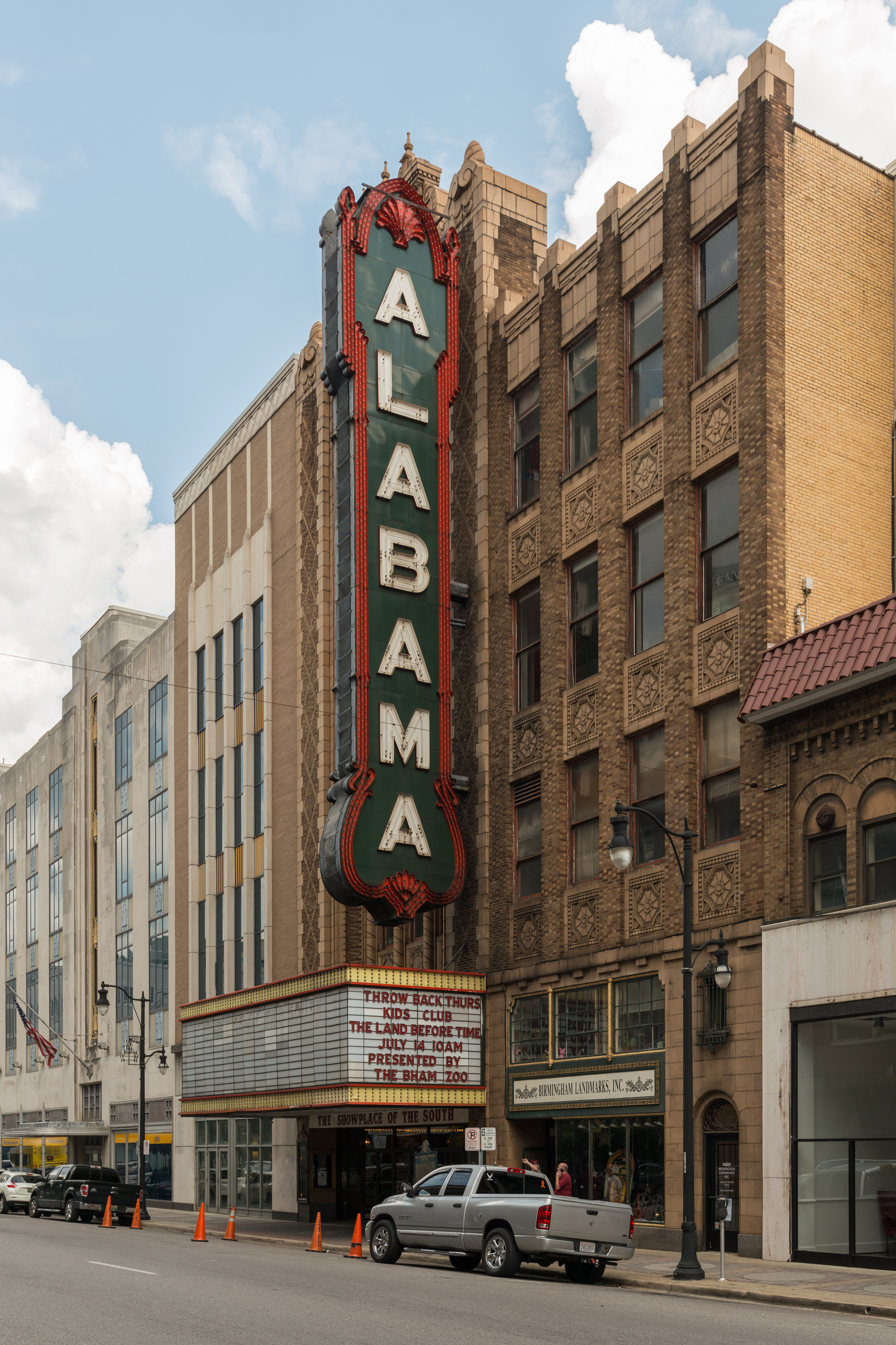 A west view of the facade and sign of Alabama Theatre, Birmingham, Alabama